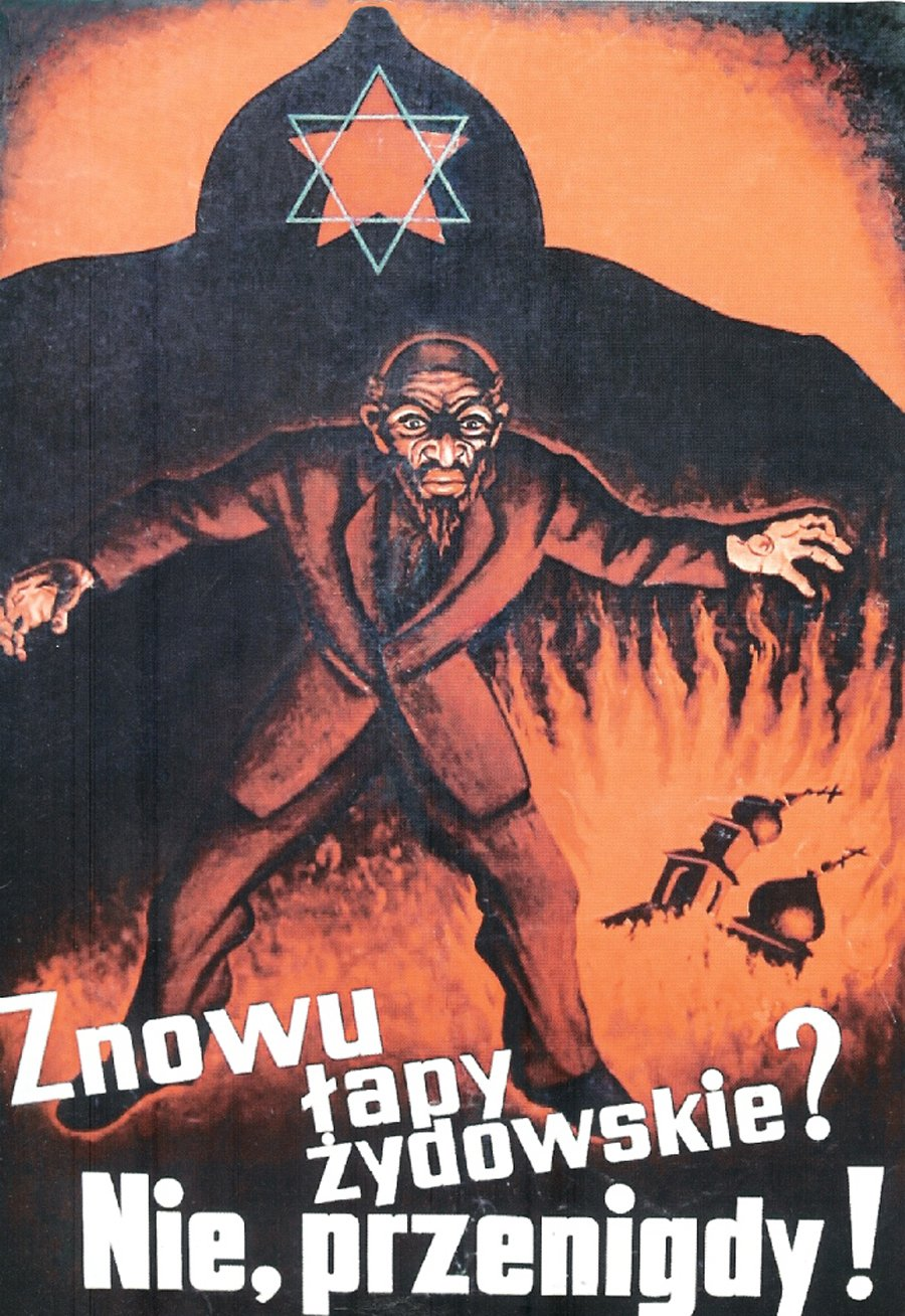 Polish-language propaganda poster from the Polish-Bolshevik war of 1919-1921. Nr inw. MN-Pl.2011, at the Museum of Independence, Warsaw. According to narrative by mgr Sylwia Szczotka entitled "Wizerunek Bolszewika" (An image of a Bolshevik) of the Museum, this overtly antisemitic limited-run print from the permanent exibit called "Polonia Restituta" was supposed to inspire fear among the Orthodox devotees (see steeples with three-barred Byzantine crosses) in the eastern regions of the newly forming Second Republic. Paradoxically, this Polish-language poster wasn't meant for the Polish Catholics.